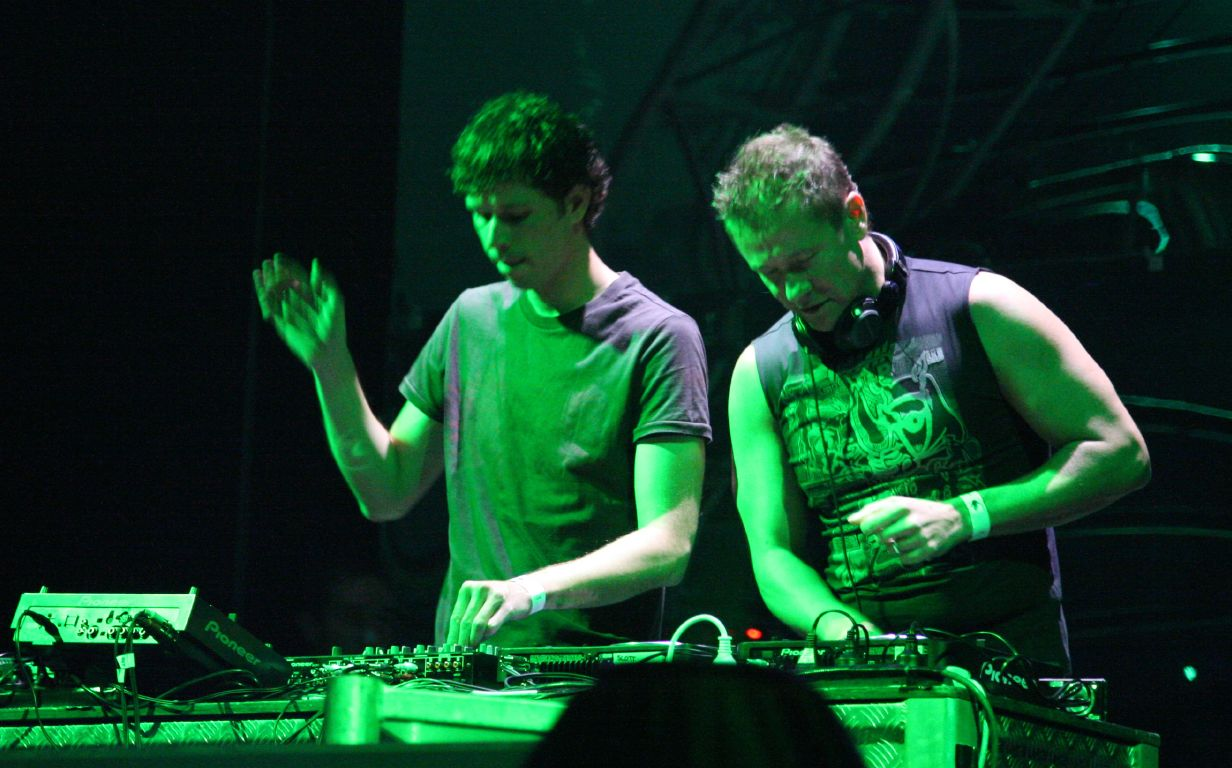 German music duo Cosmic Gate performing at the "Godskitchen" party, Melbourne, Australia